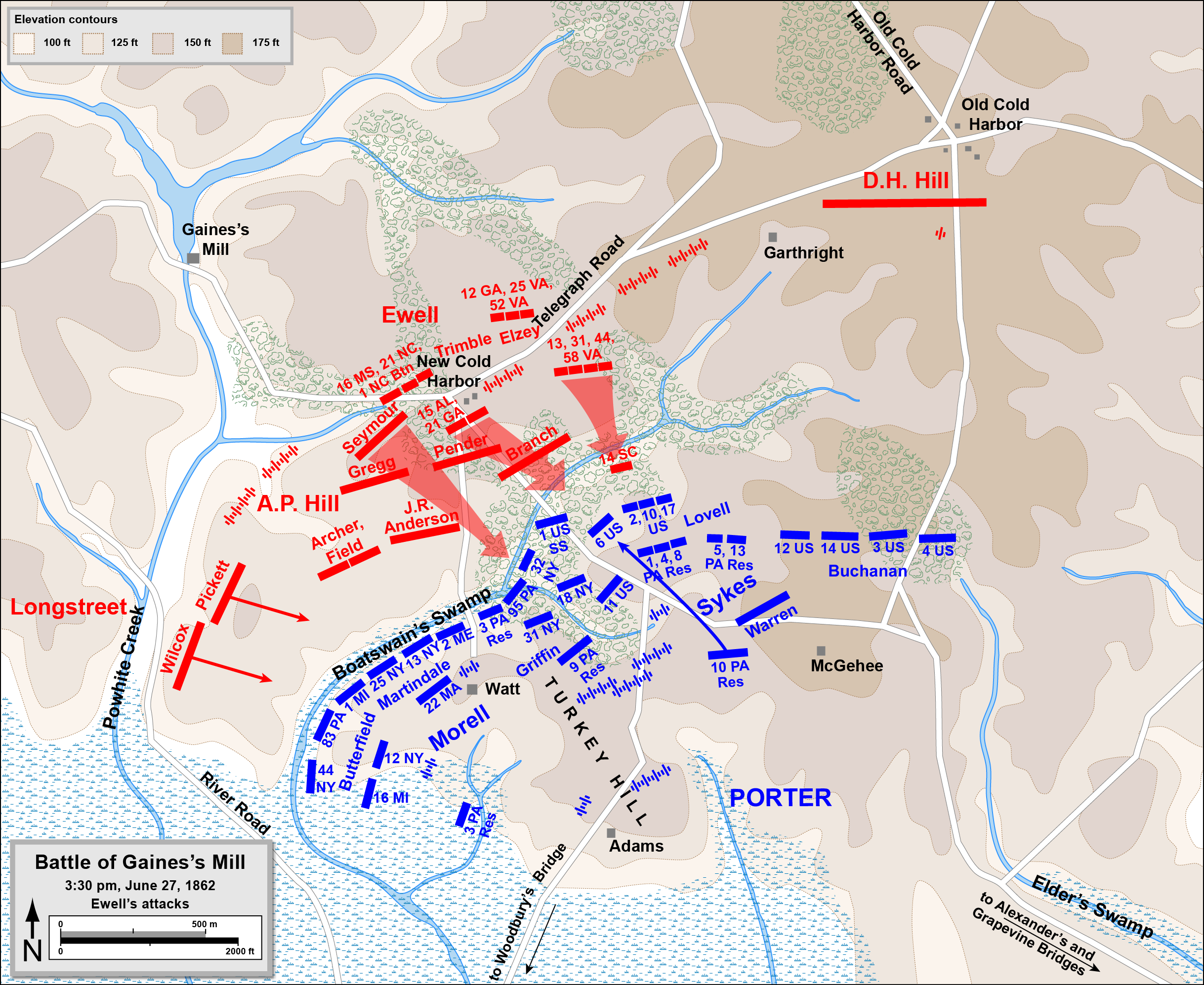 Map of the Battle of Gaines's Mill of the American Civil War, 2/3: actions at 3:30pm. Drawn by Hal Jespersen in Adobe Illustrator CS5. Graphic source file is available at Attribution: Map by Hal Jespersen